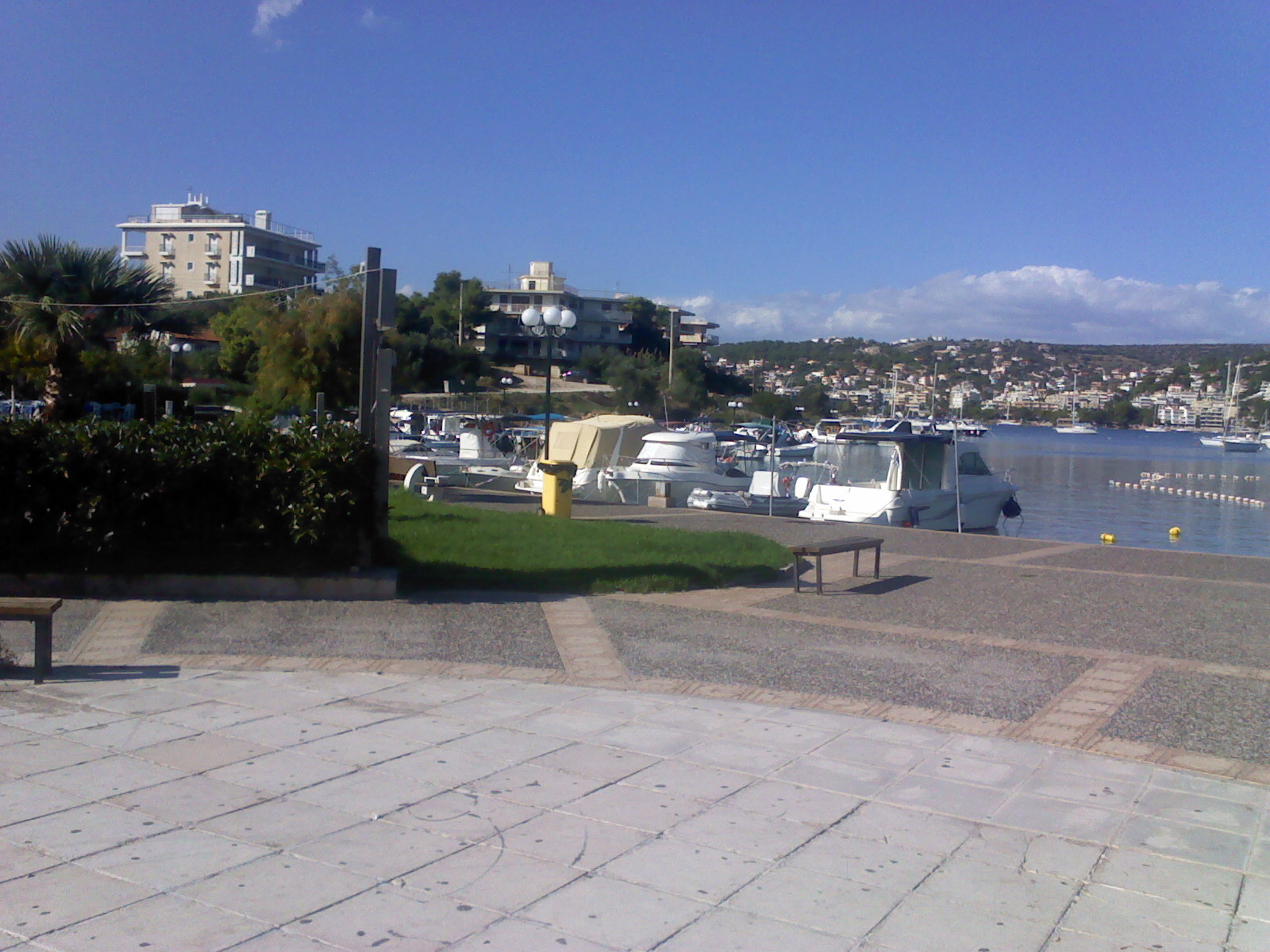 Port Porto Rafti